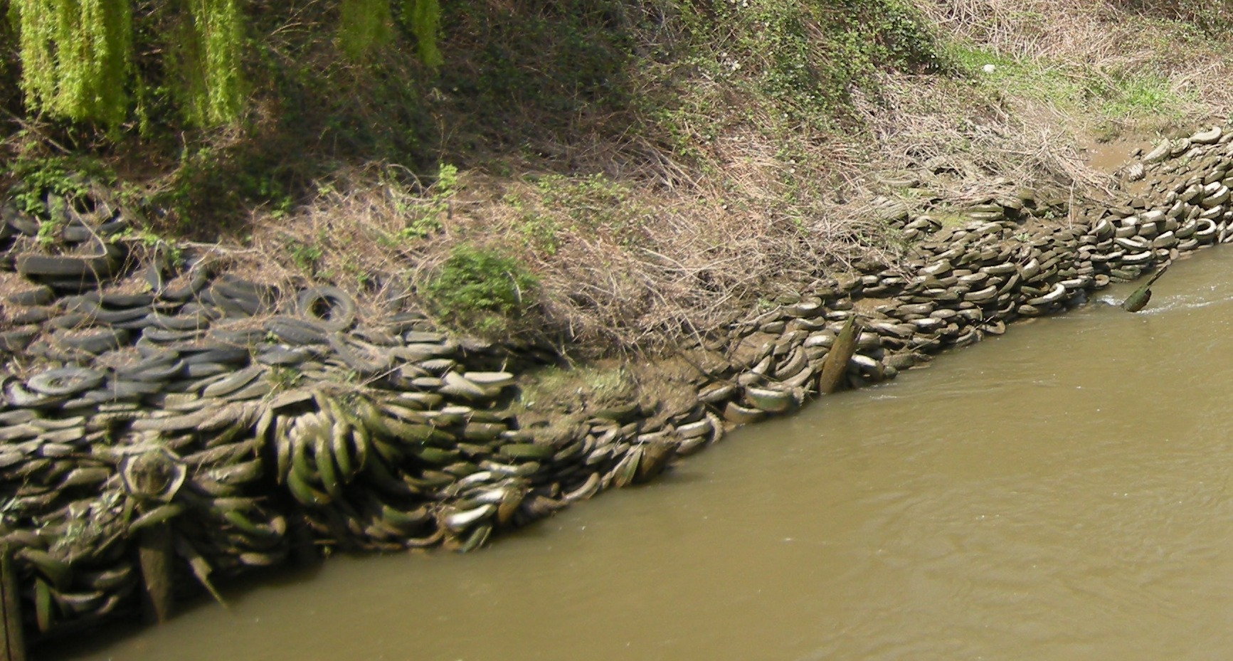 The shore of Cecil Moses Memorial Park on the left bank of the upper Duwamish River, Tukwila, Washington. The shore is held in place by a bulwark of old tires, and is seen here from a pedestrian bridge on the Green River Trail.